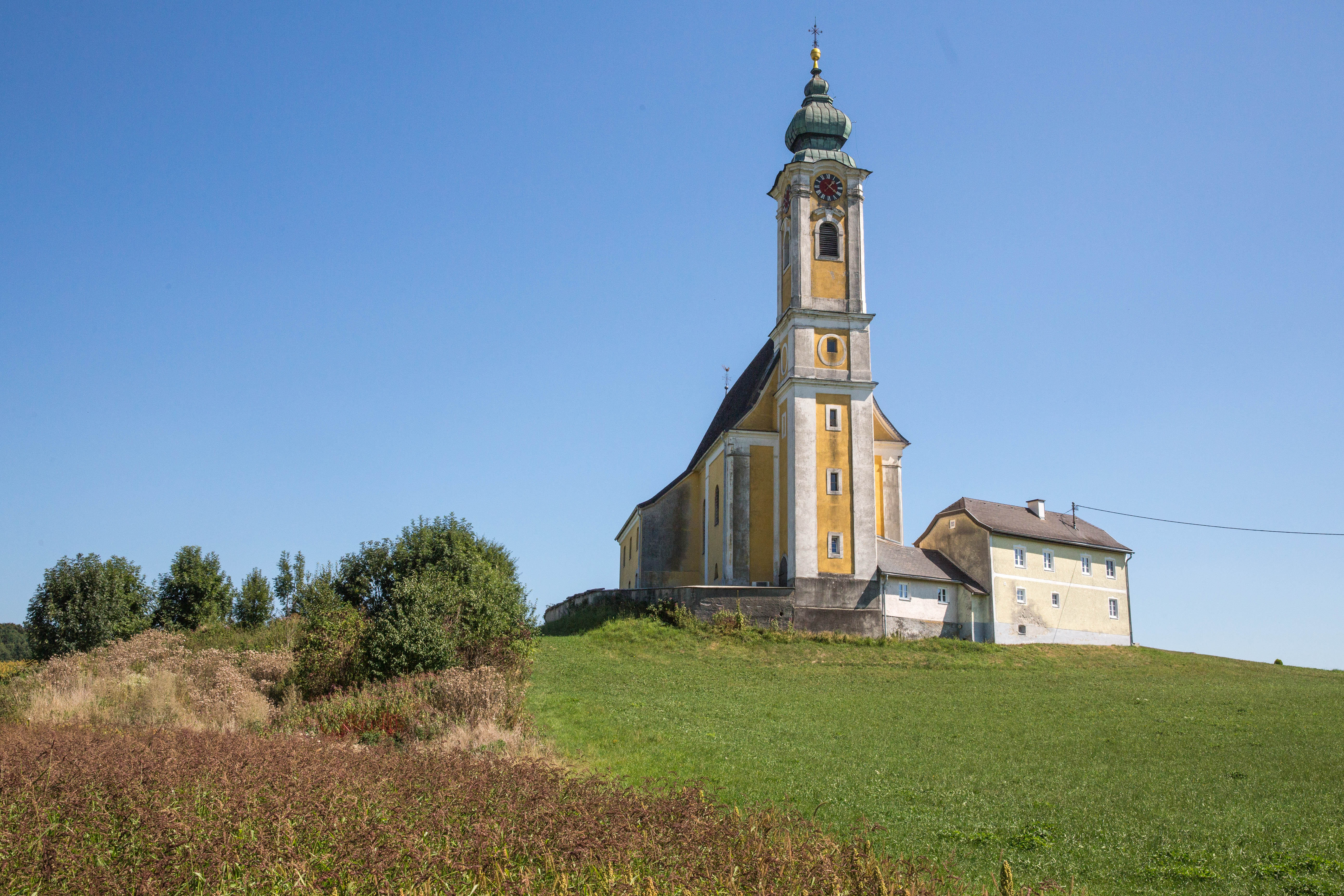 catholic church St. Bartholomäus with house of the sexton